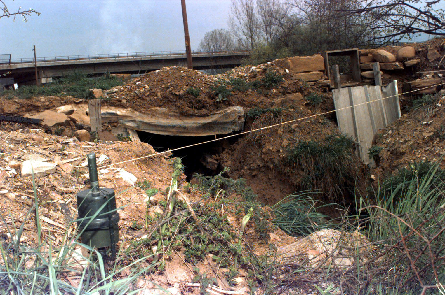 A medium close up view of a Former Yugoslavia stake mounted PMM ANTI-PERSONNEL MINE placed near a damaged section of road, with a very visible trip wire.